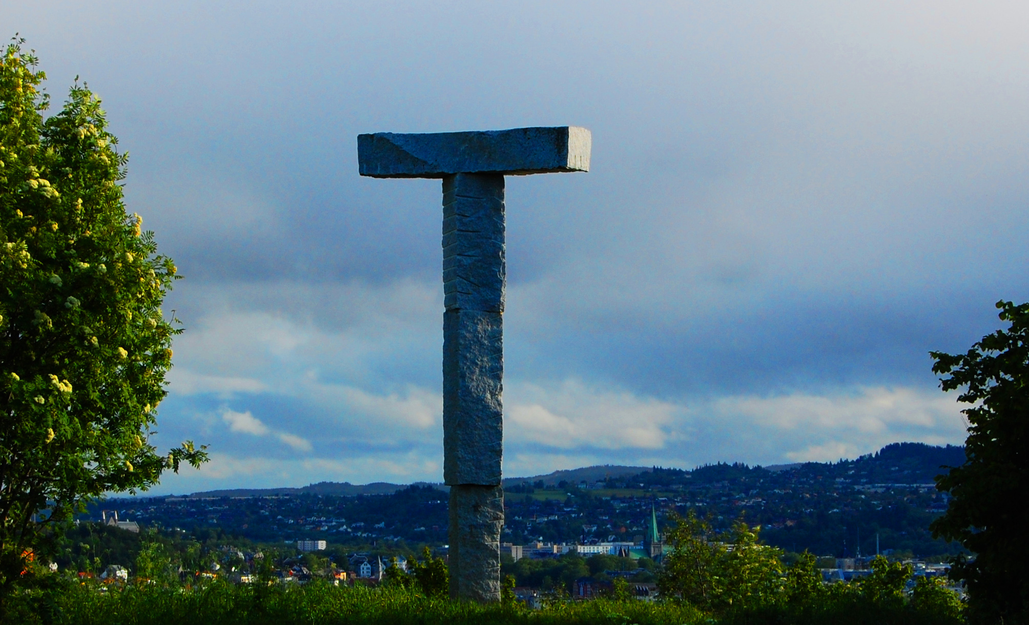 Ladehammeren